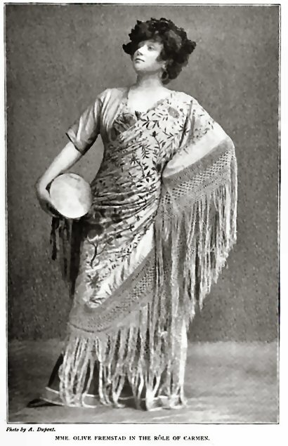 Opera singer Olive Fremstad